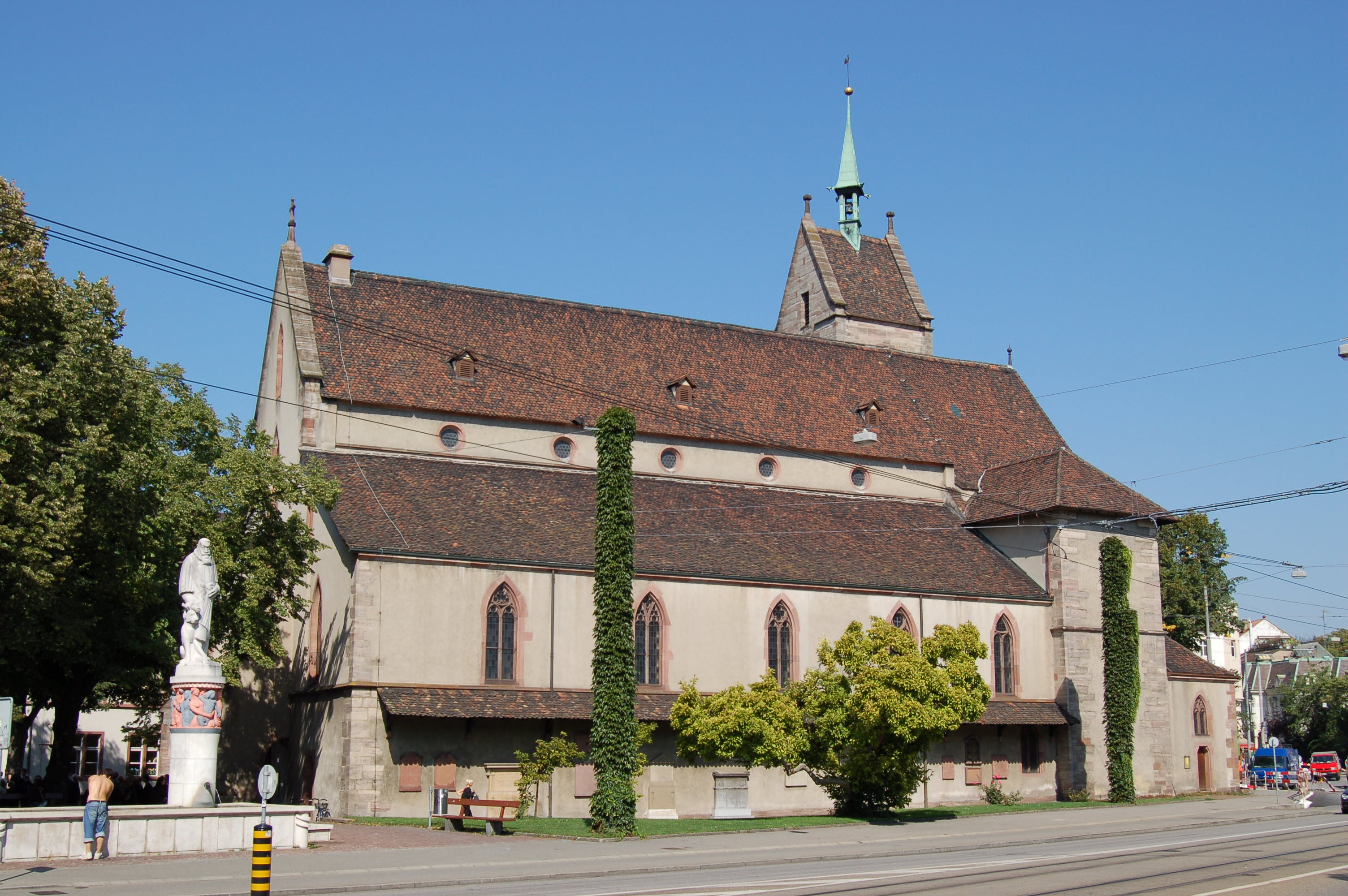 Church of St. Theodore in Basel, Switzerland.